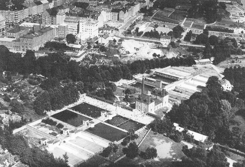 The area of Eriksdal as it looked like around 1930. A former water purification plant with its pumpstation, during the second world war a bathe in summertime.